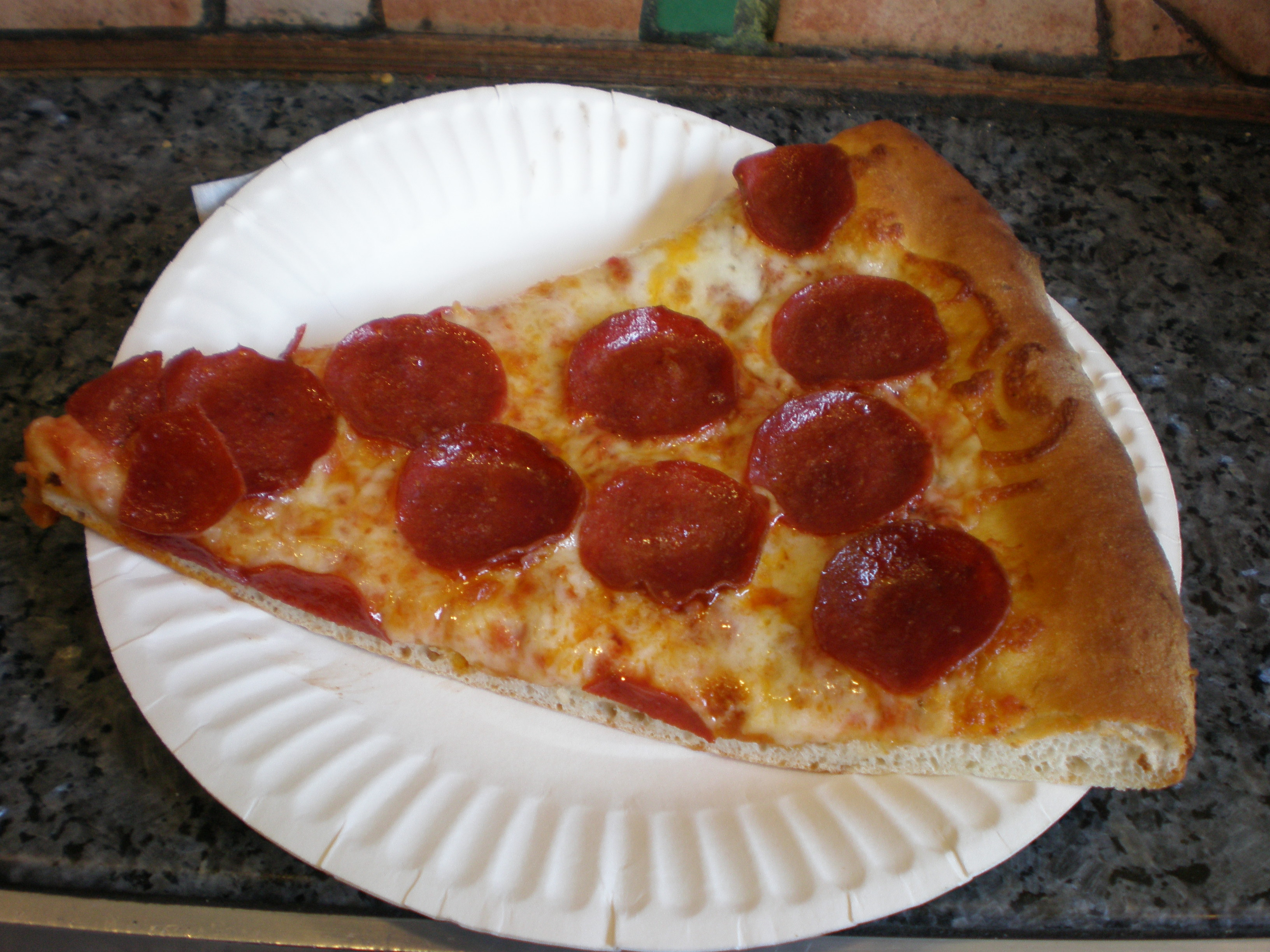 A slice of pepperoni pizza from Blondie's in Berkeley, California.